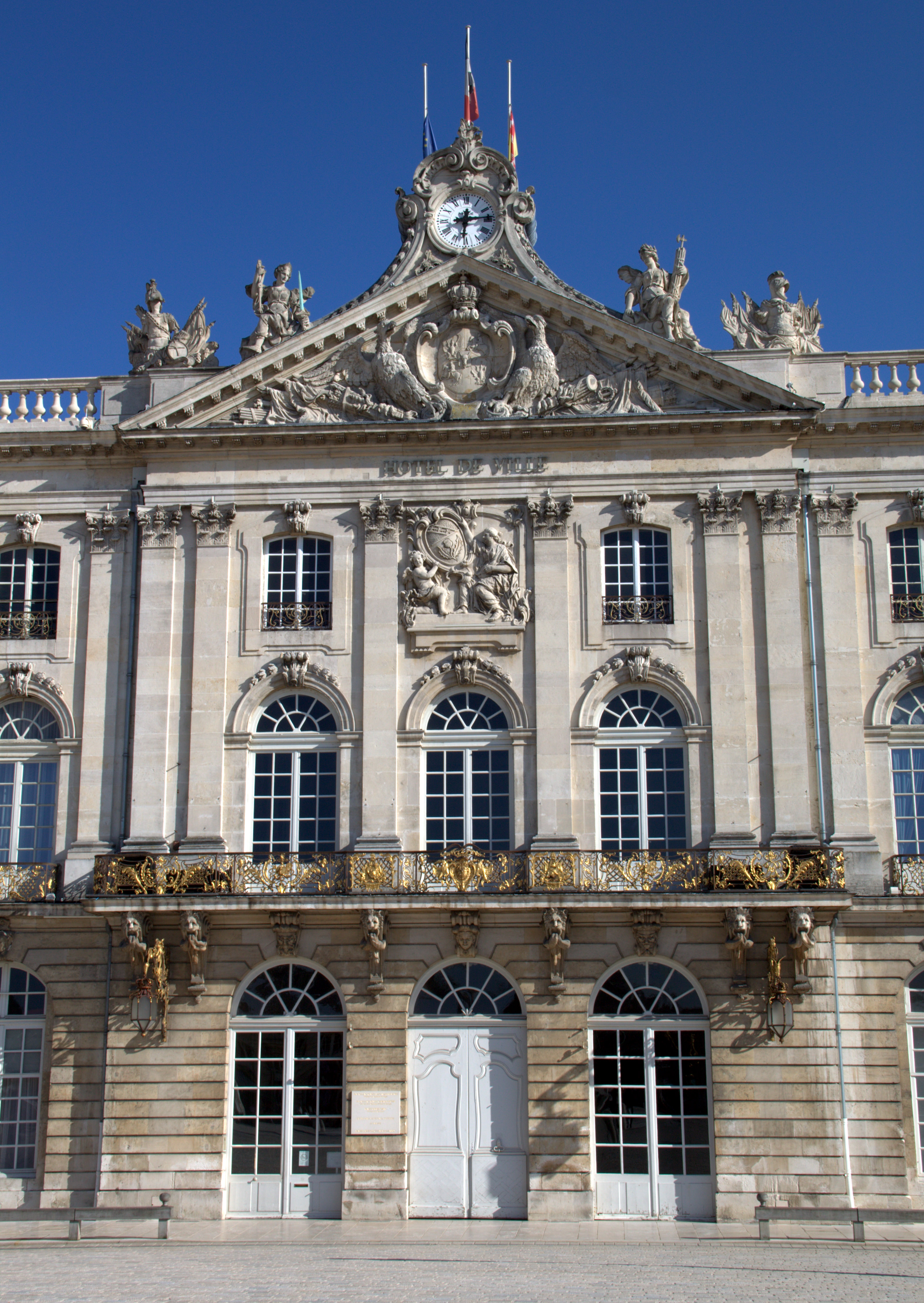 Nancy Town Hall